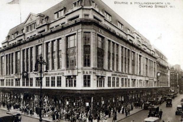 From an original Postcard. Bourne & Hollingsworth in 1920's